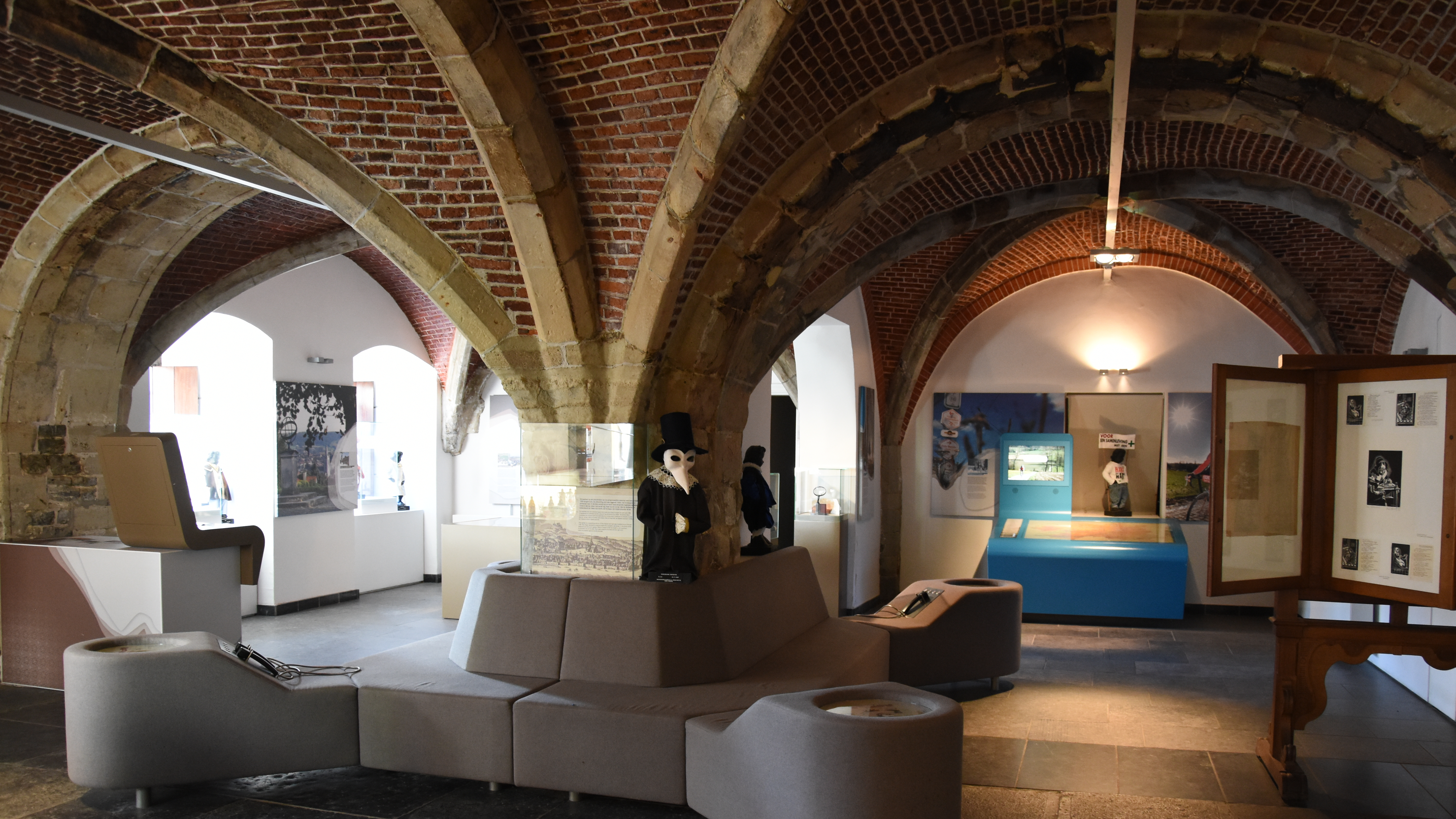 Geraardsbergen, basement of the town hall, with Gothic rib vaults